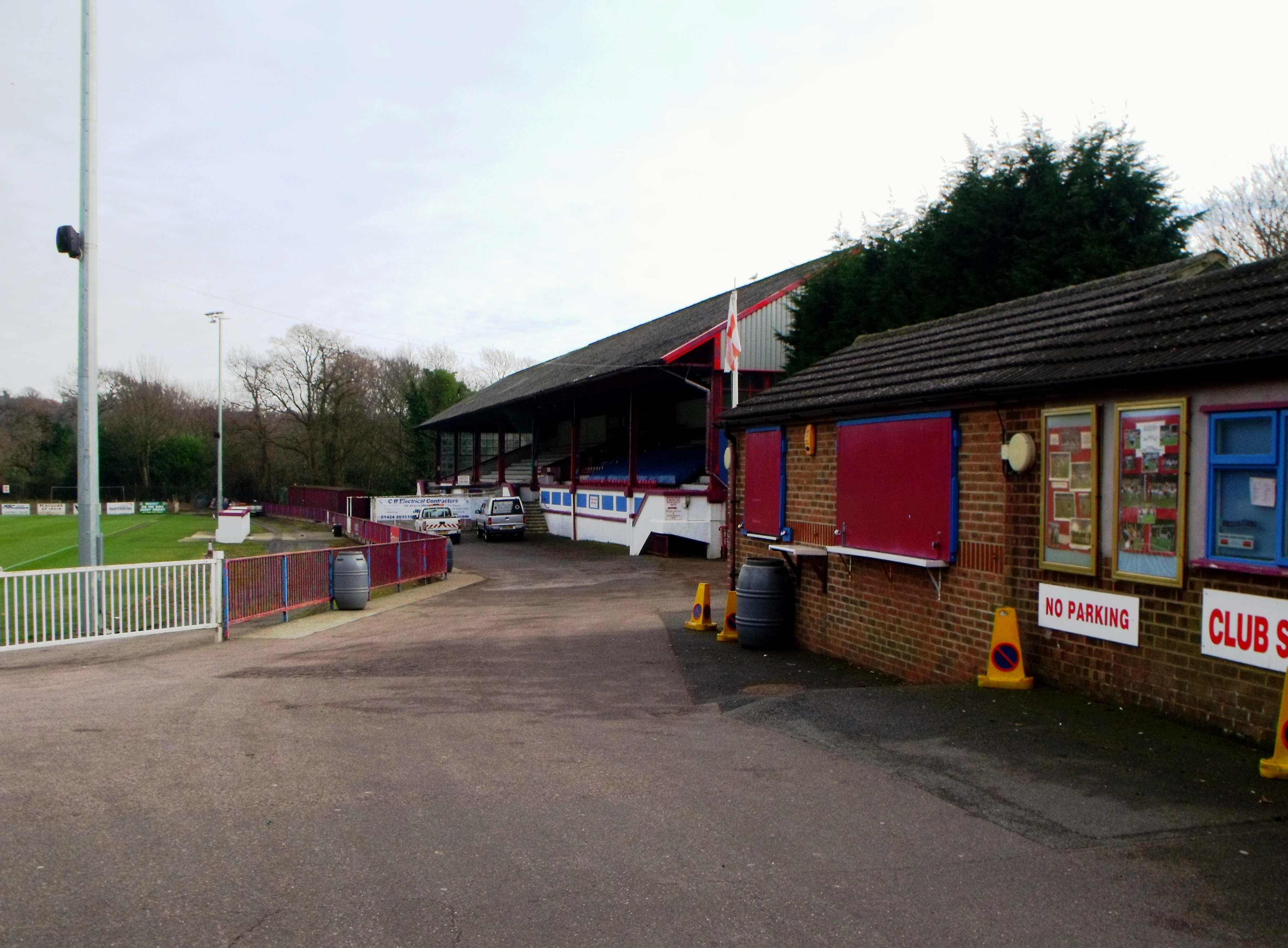 Pilot Field, home of Hastings United.